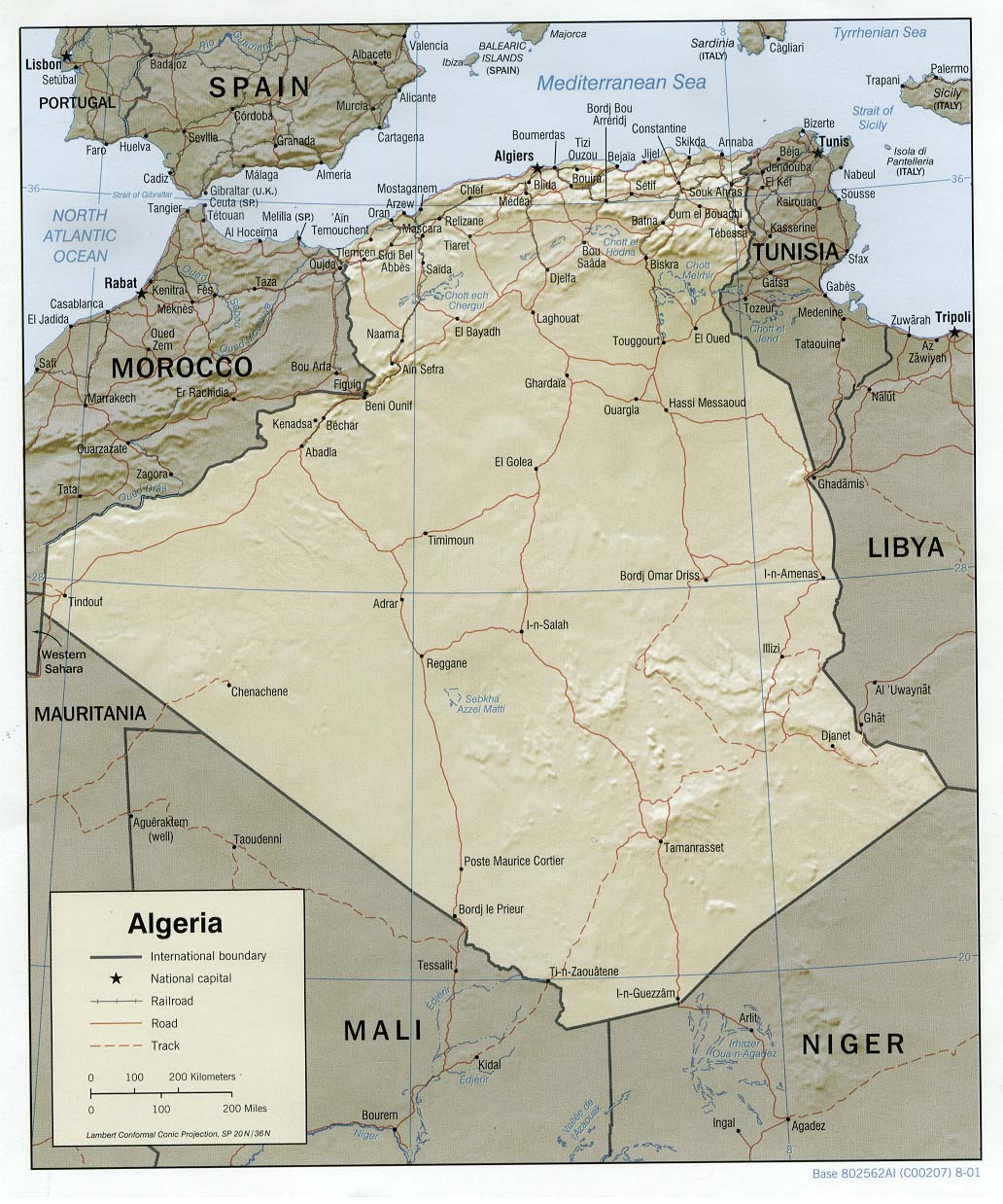 Shaded relief map of Algeria, 2001.